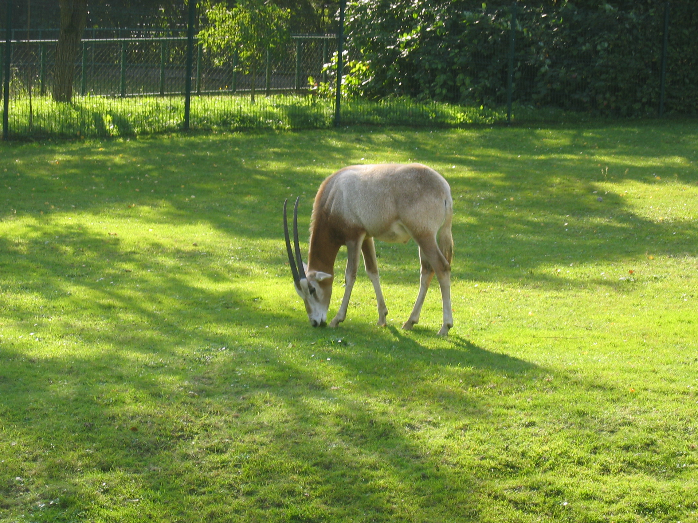 Gdańsk Oliwa, Poland, Zoo - Scimitar Oryx